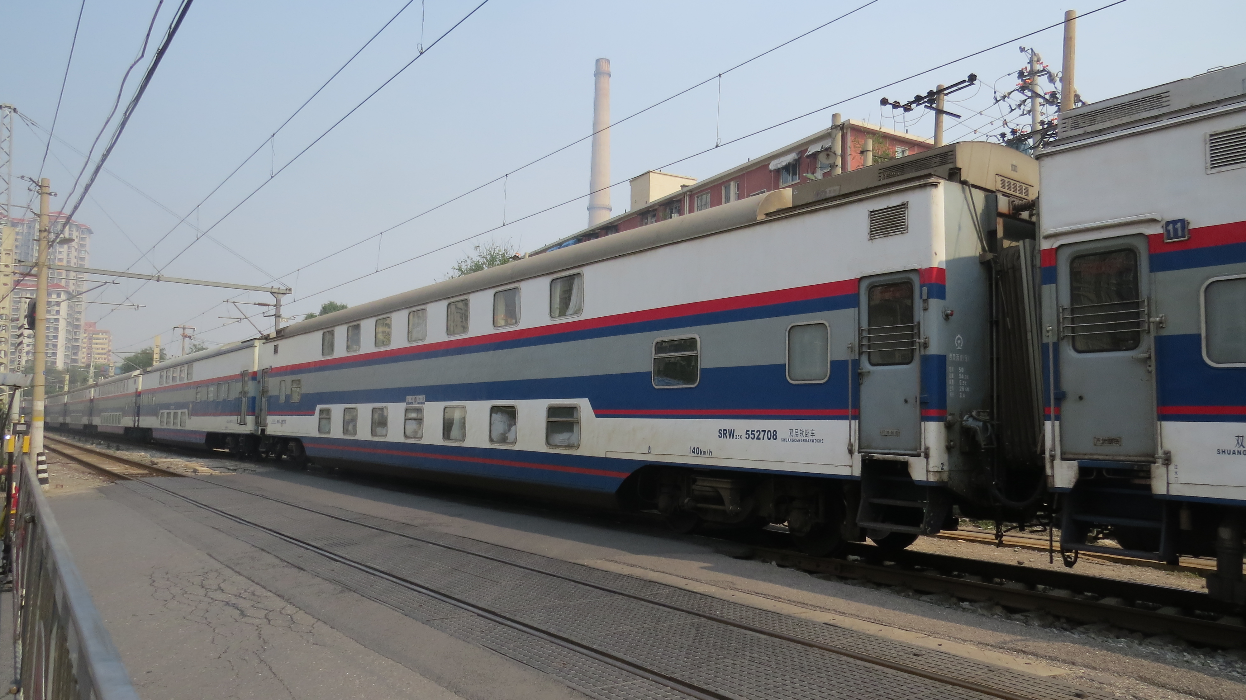 T57 to Tianjin. The berths on the upper deck are said to be more comfortable.